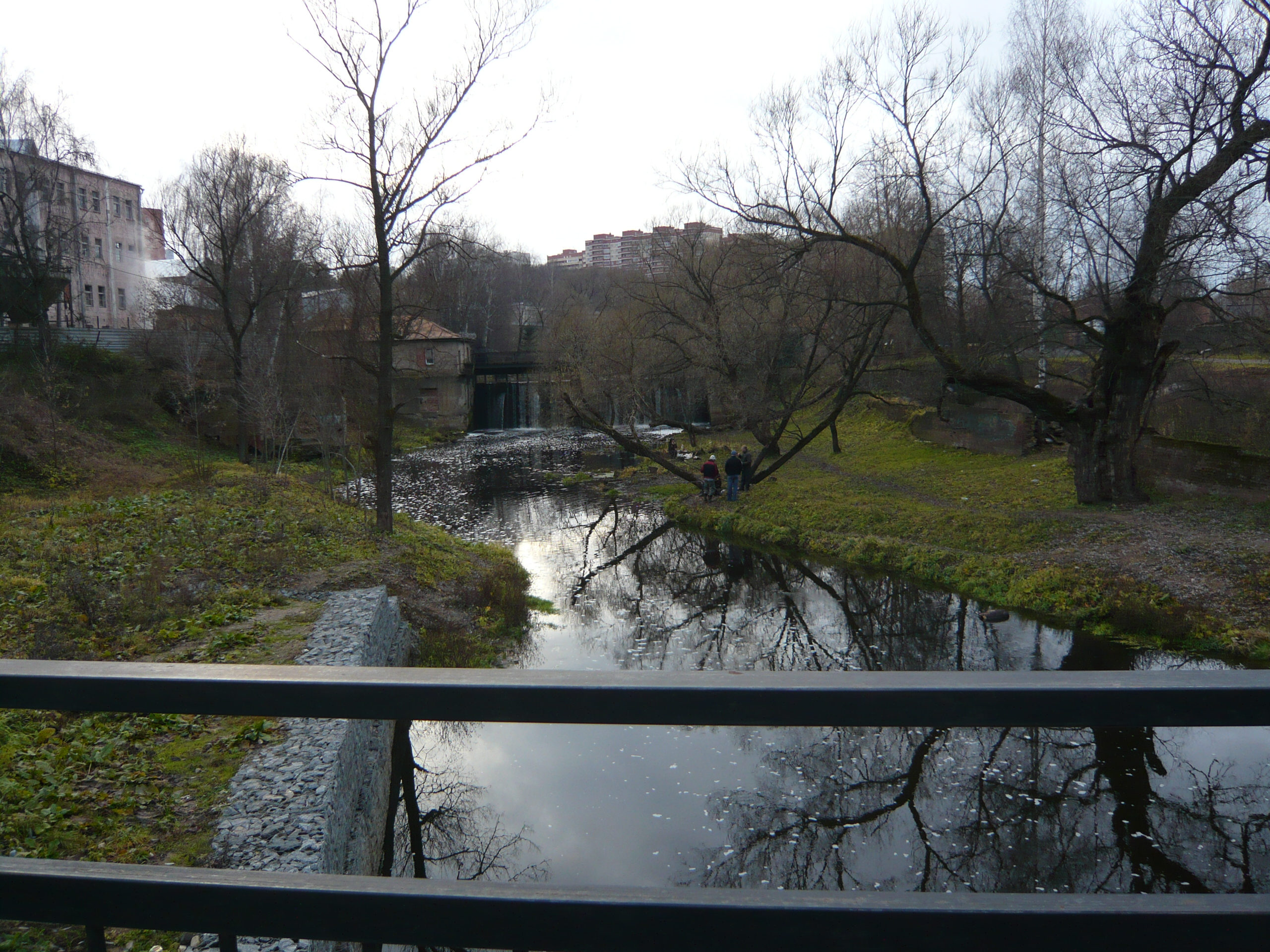 River Desna kind in city boundaries of Troitsk of Moscow Region